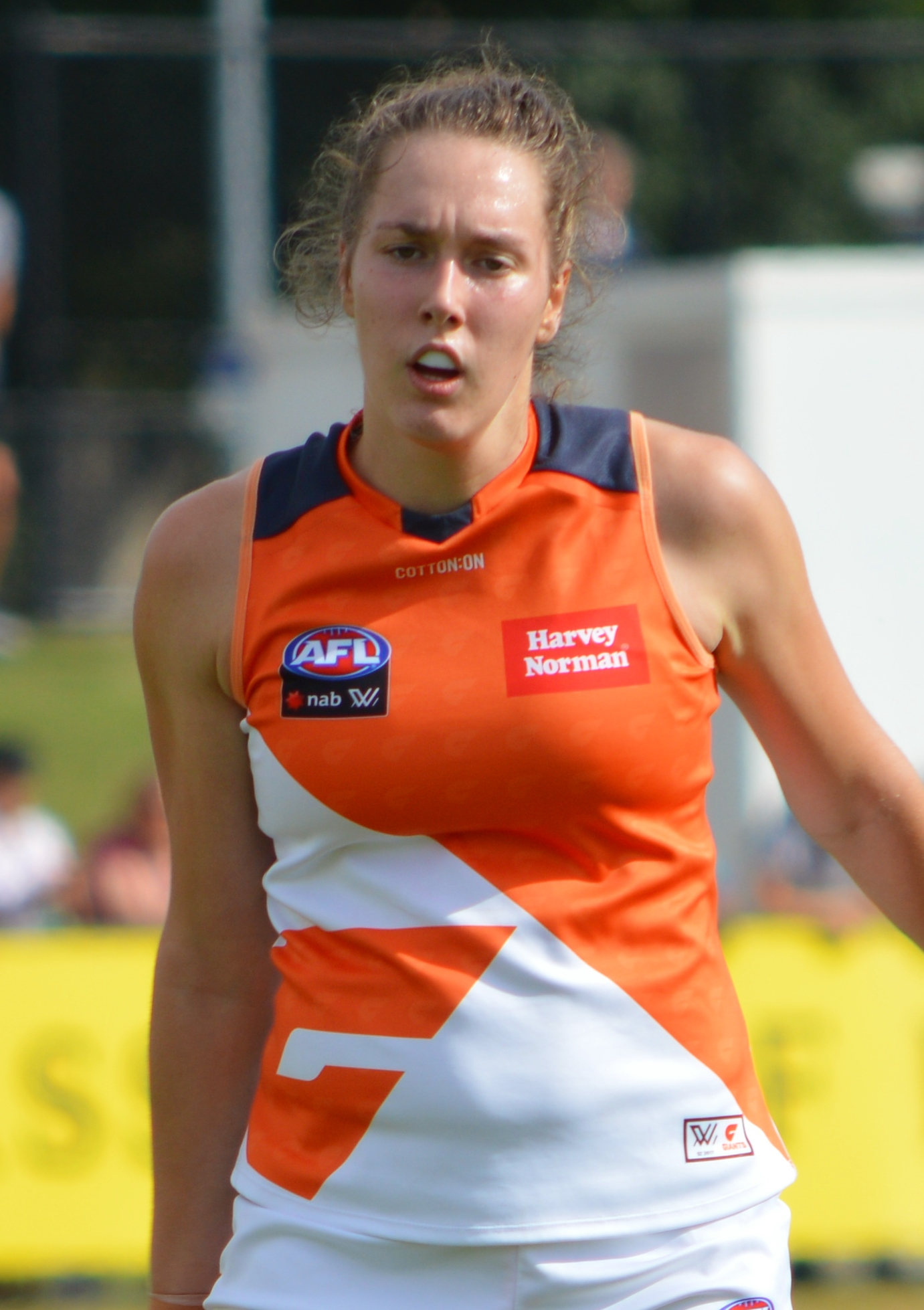 Erin McKinnon during the round 3, 2018, AFL Women's match between Collingwood and Greater Western Sydney